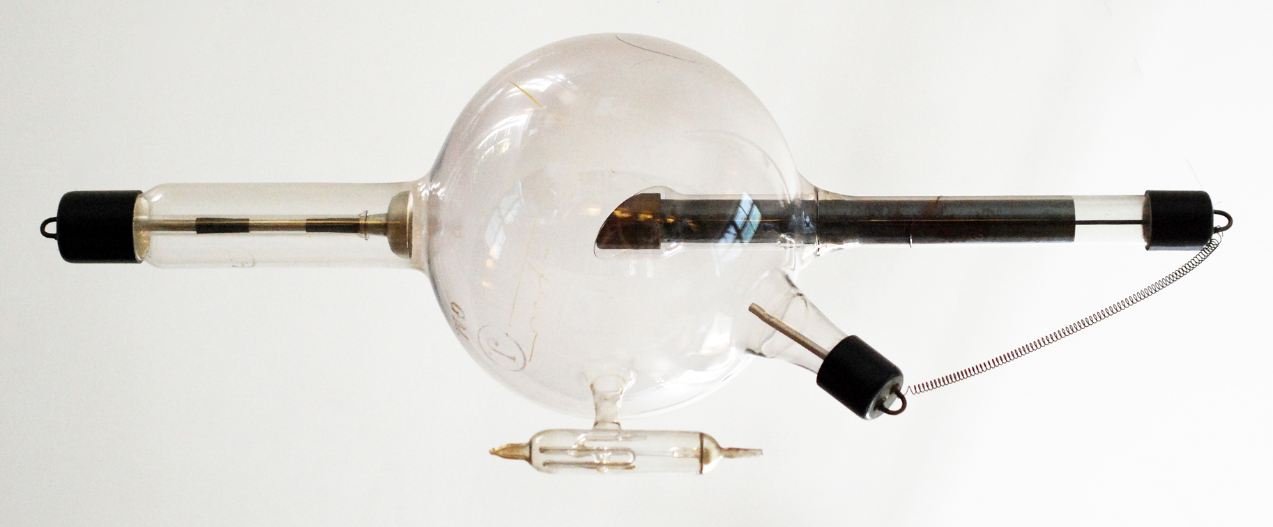 An early Crookes x-ray tube from museum of Wilhelm Conrad Röntgen in Würzburg. These first generation 'cold cathode' tubes were used from the 1890s until about 1920. The electrode at the left is the cathode, which releases a stream of electrons which strike the angled anode at the center of the bulb, generating x-rays, which radiate through the rear wall of the glass envelope. The anode is a massive bar to dissipate the heat generated by the electron beam. The sausage-shaped glass bulb attached at the bottom is a 'softener' device, which controls the residual pressure in the tube. Crookes tubes required some gas in them to operate. However, over time the gas was absorbed by the walls of the tube, lowering the pressure, resulting in 'harder' x-rays, until the tube stopped working entirely. The 'softener' used various methods to release a small amount of gas into the tube, restoring it to operation.